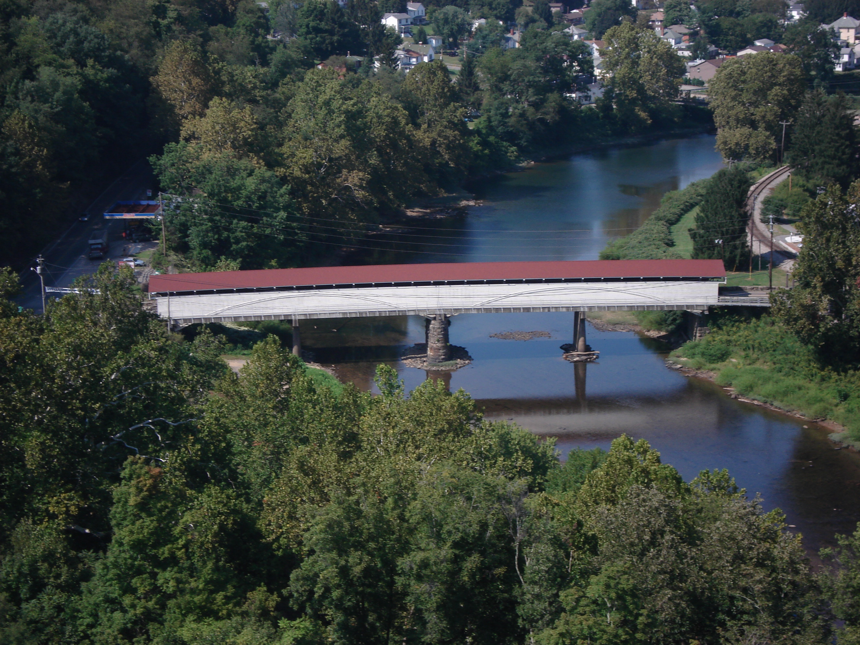 The Philippi Covered Bridge (1852) spans the Tygart Valley River at Philippi, West Virginia, USA.